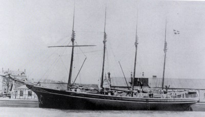 Danish Motor schooner Dana, owned by the East Asiatic Company and made available for the Danish zoologist Johannes Schmidt for his espeditions to the Sargasso Sea in 1920-21.